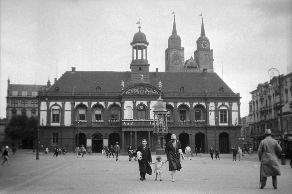 People at the Rathaus (Town Hall) at the Alter Markt (Old Market) in Magdeburg. In the background are the towers of St. Johannis church. Människor vid rådhuset Rathaus vid Alter Markt i Magdeburg. I bakgrunden syns tornen på Johanneskyrkan. Location: Magdeburg, Sachsen-Anhalt, Deutschland, Germany Photograph by: Berit Wallenberg Date: 19.06.1927 Format: Film Persistent URL: Read more about the photo database (in english)